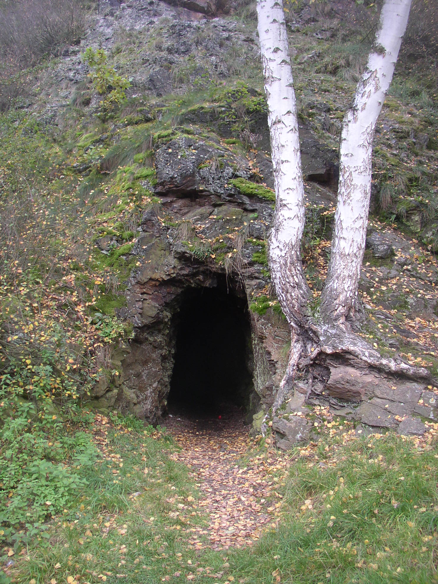 Jenerála Natural Monument, Prague-Dejvice, Czech Republic. Adit entrance at western foothill.